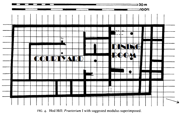 mock up showing the details of a praetorium